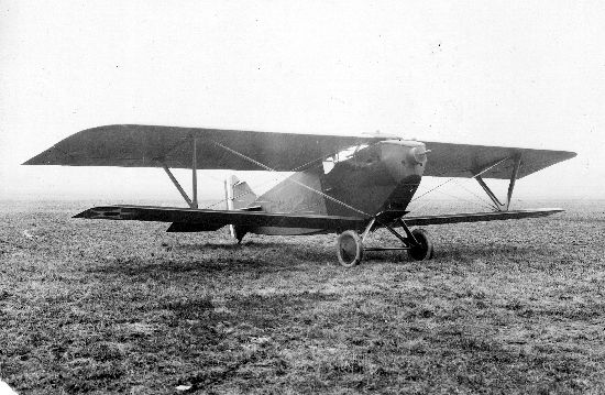 American fighter Aeromarine PG-1 around 1922